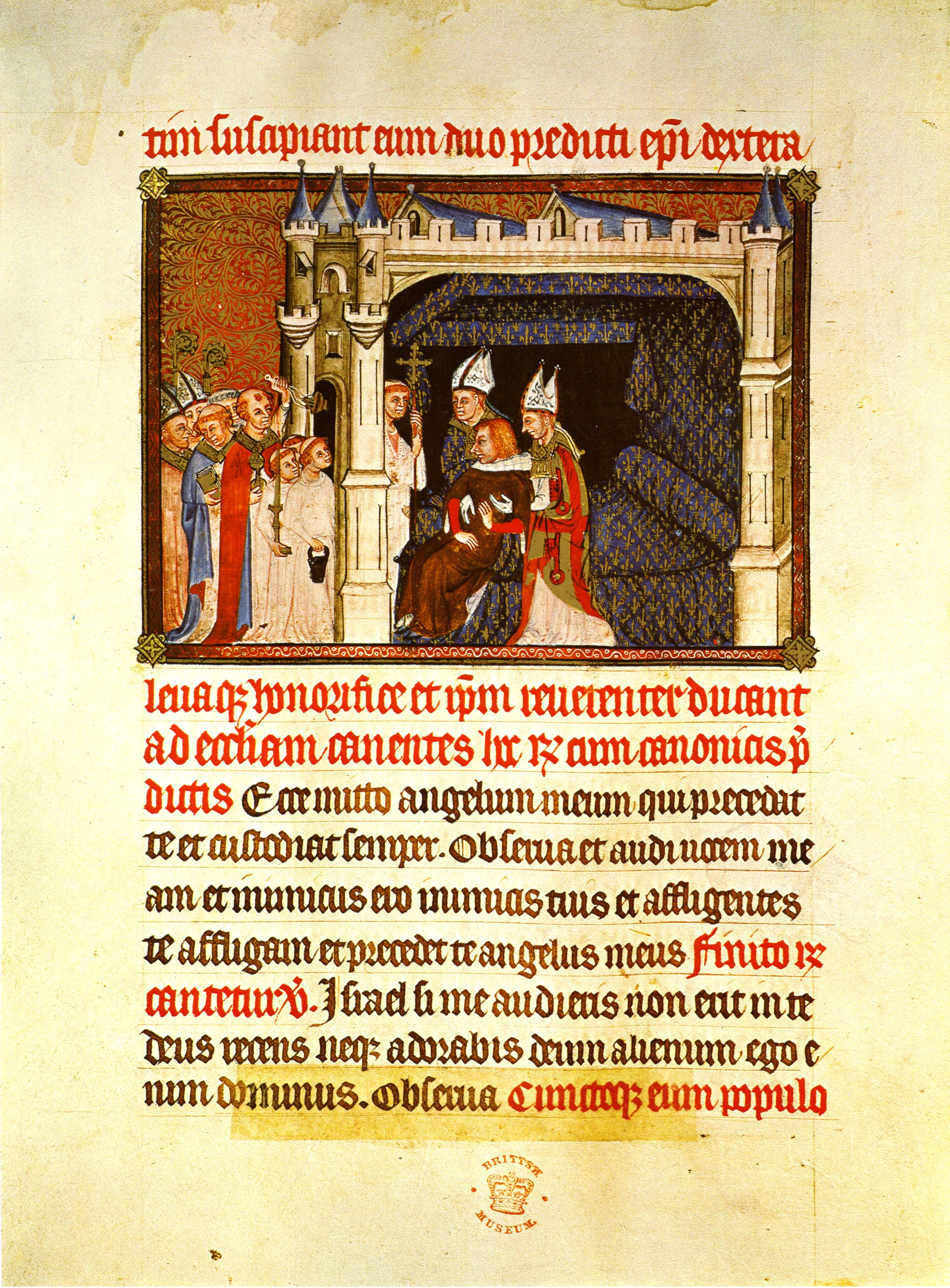 King Charles V of France sees the archbishop of Reims and the bishop of Beauvais in his bedchamber before his anointing. They are going to escort him to the cathedral of Reims where he will be anointed. Illumination in the manuscript London, British Library, Cotton Tiberius B. VIII, fol. 44v.